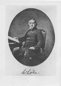 Wilhelm Loehe - einer der Väter der Diakonie.